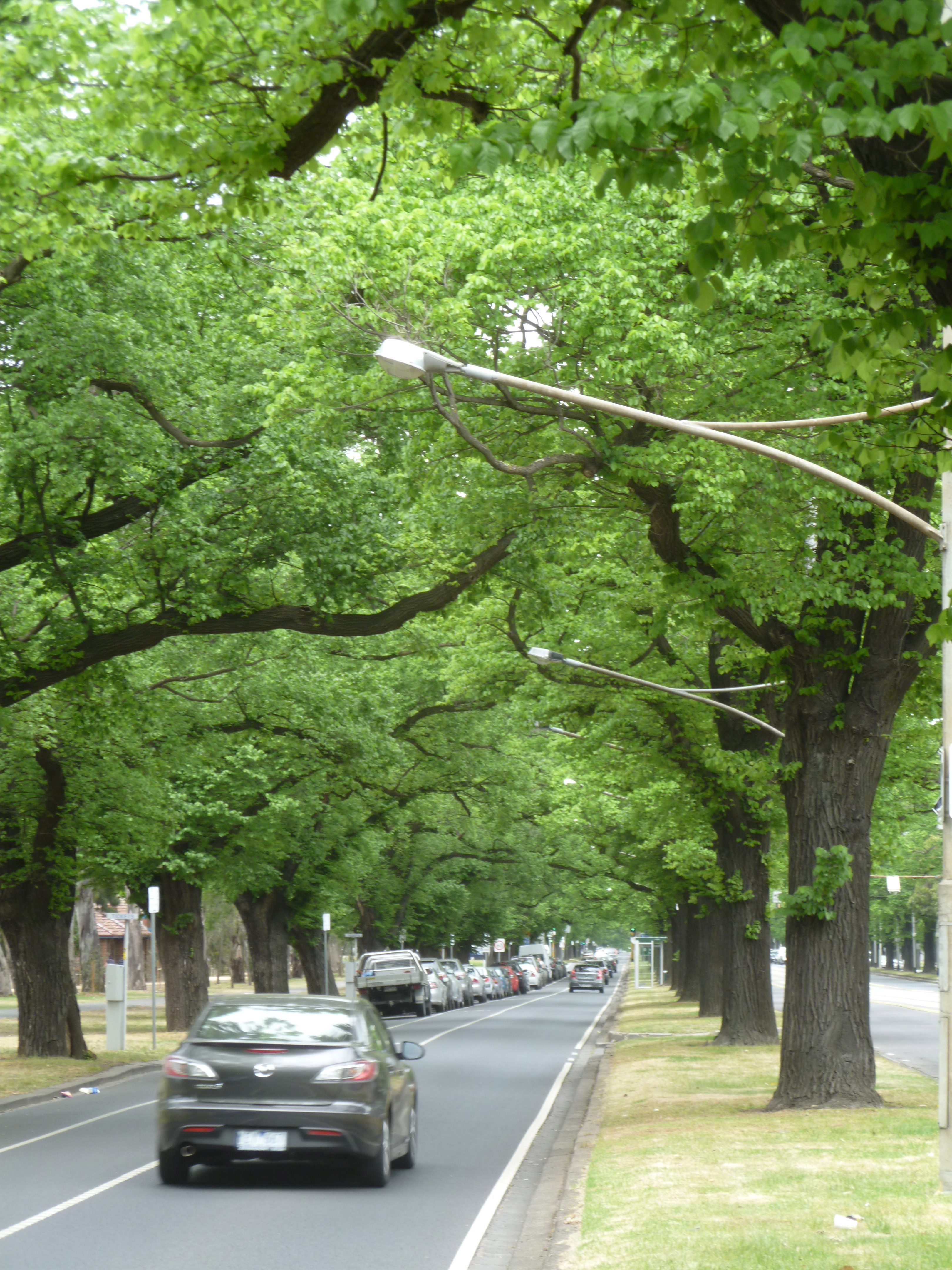 Photograph of elm trees on Royal Parade, Melbourne